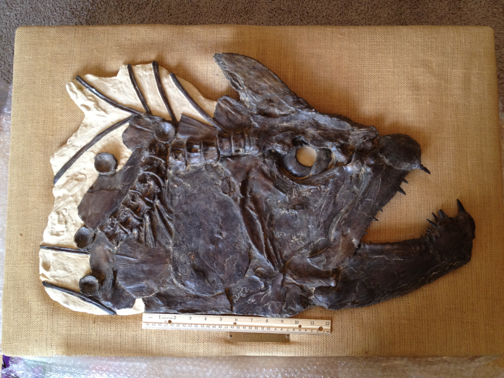 Large skull of the fish Xiphactinus audax prepared by Fossil Shack